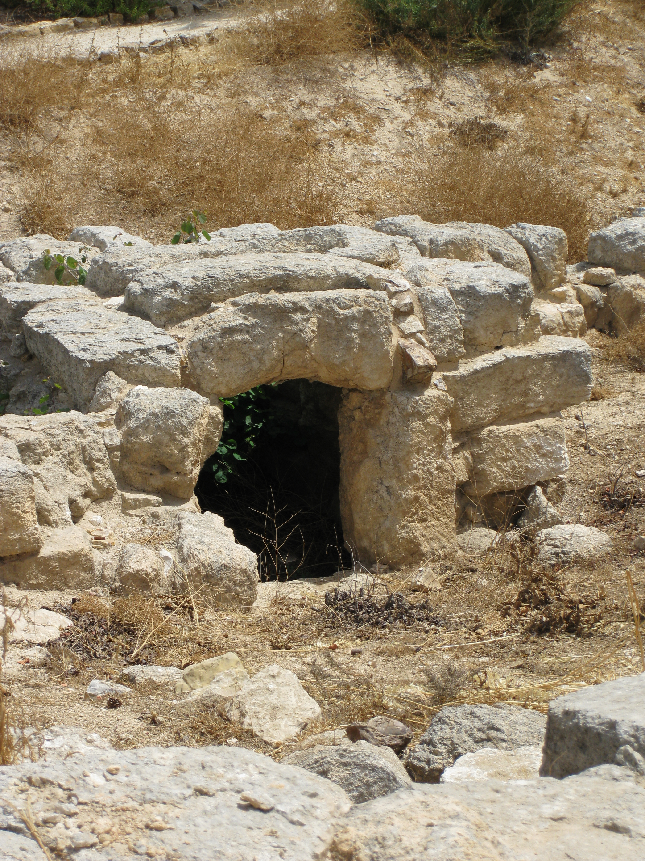 Archeological park of Ramat Rachel - secret passageway